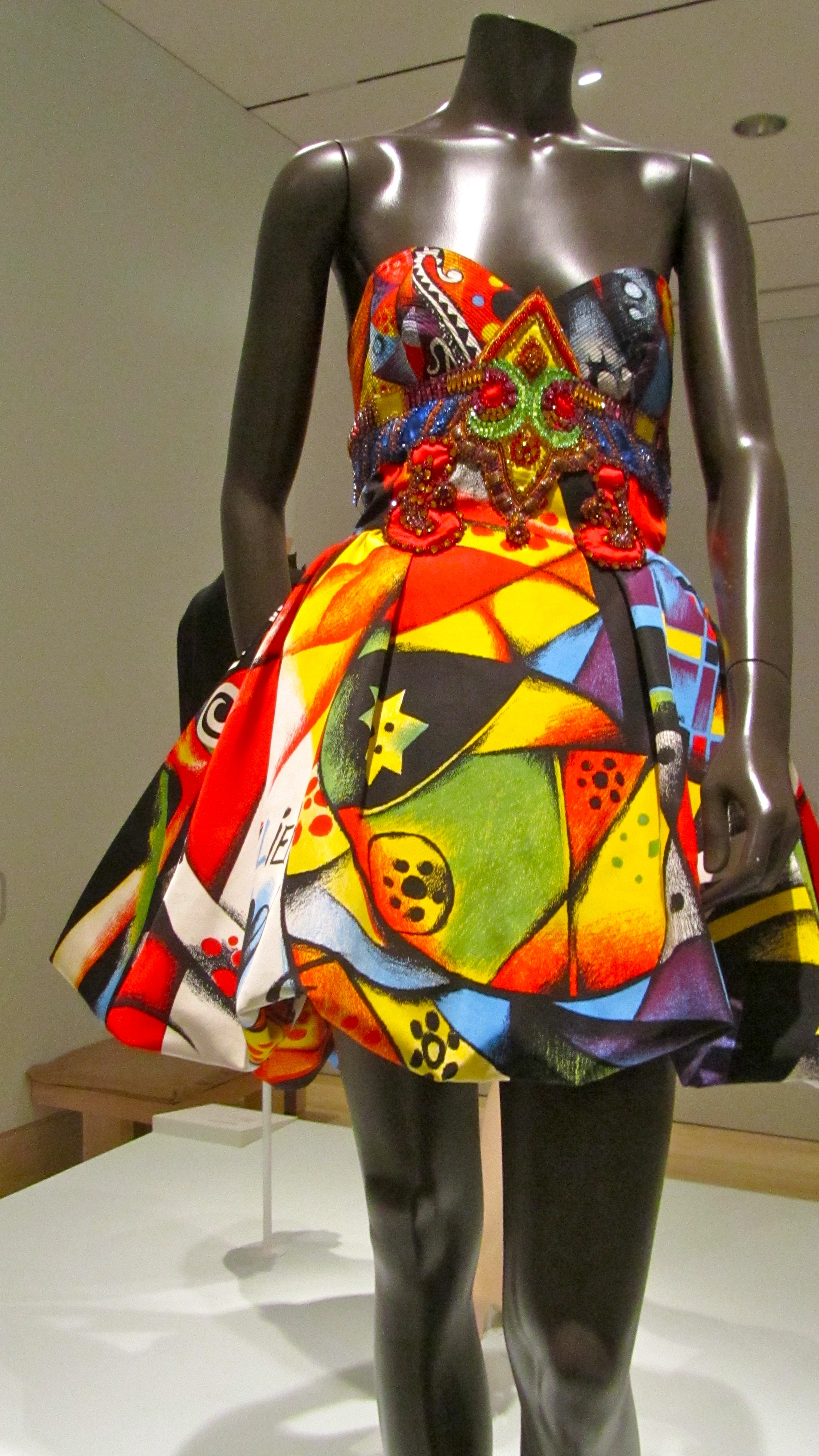 Gianni Versace evening dress, vintage in museum exhibit